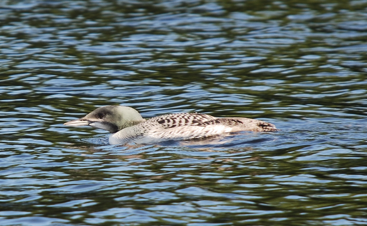 Juvenile Great Northern Loon (Gavia immer) in Adirondacks, New York.